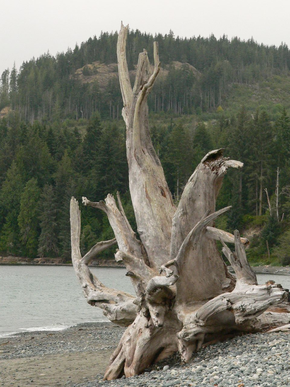 Timeless, immobile: this enormous piece of driftwood has been on French Beach on Vancouver Island since I first visited in 1984.